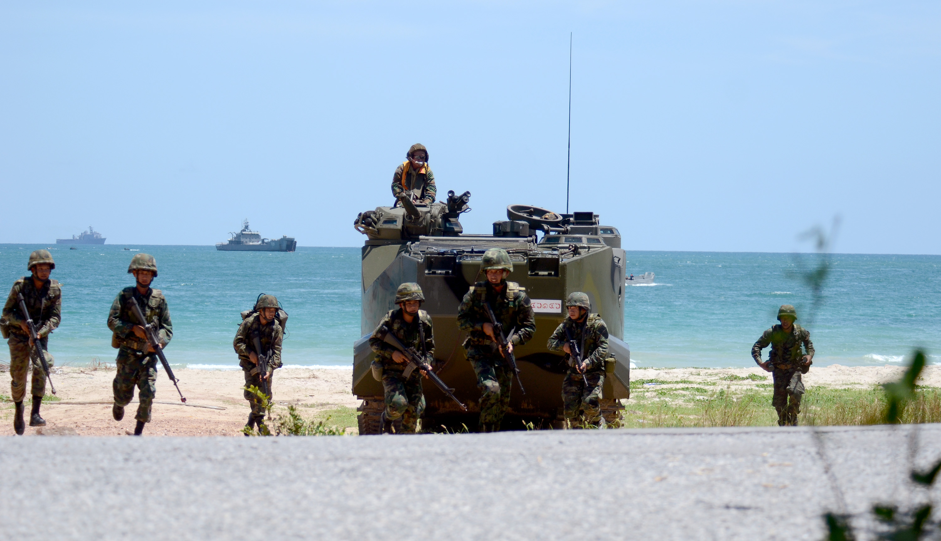 U.S. Marines assigned to the 2nd Assault Amphibian Battalion, 2nd Marine Division conduct amphibious assault training with Thai marines during Cooperation Afloat Readiness and Training (CARAT) 2013 at Hat Yao Beach, Thailand, June 9, 2013. CARAT is a series of bilateral exercises held annually in Southeast Asia to strengthen relationships and enhance force readiness.